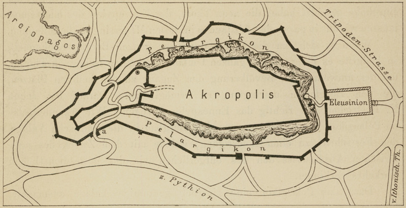 Illustration from Die Akropolis von Athen nach den Berichten der Alten und den neusten Erforschungen. Mit 132 Textfiguren und 36 Tafeln, Berlin, Julius Springer, 1888, by Adolf Bötticher